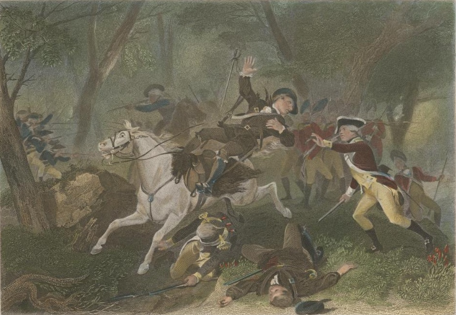 Engraving depicting the death of British Major Patrick Ferguson at the Battle of Kings Mountain during the American Revolutionary War, October 7, 1780.